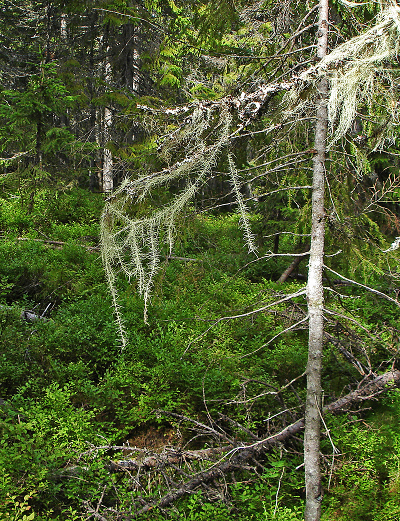 Old Man's Beard lichen (Usnea longissima) in Västanåhöjden Nature Reserve, Örnsköldsvik Municipality, Sweden. If the picture is used outside of the Wikipedia project, indicate: "Photo: Gudrun Norstedt" or the equivalent text in the relevant language.